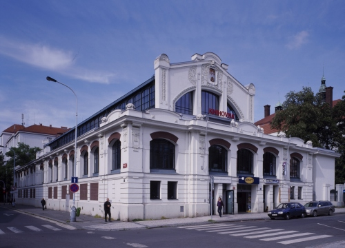 Smichov Library Branch